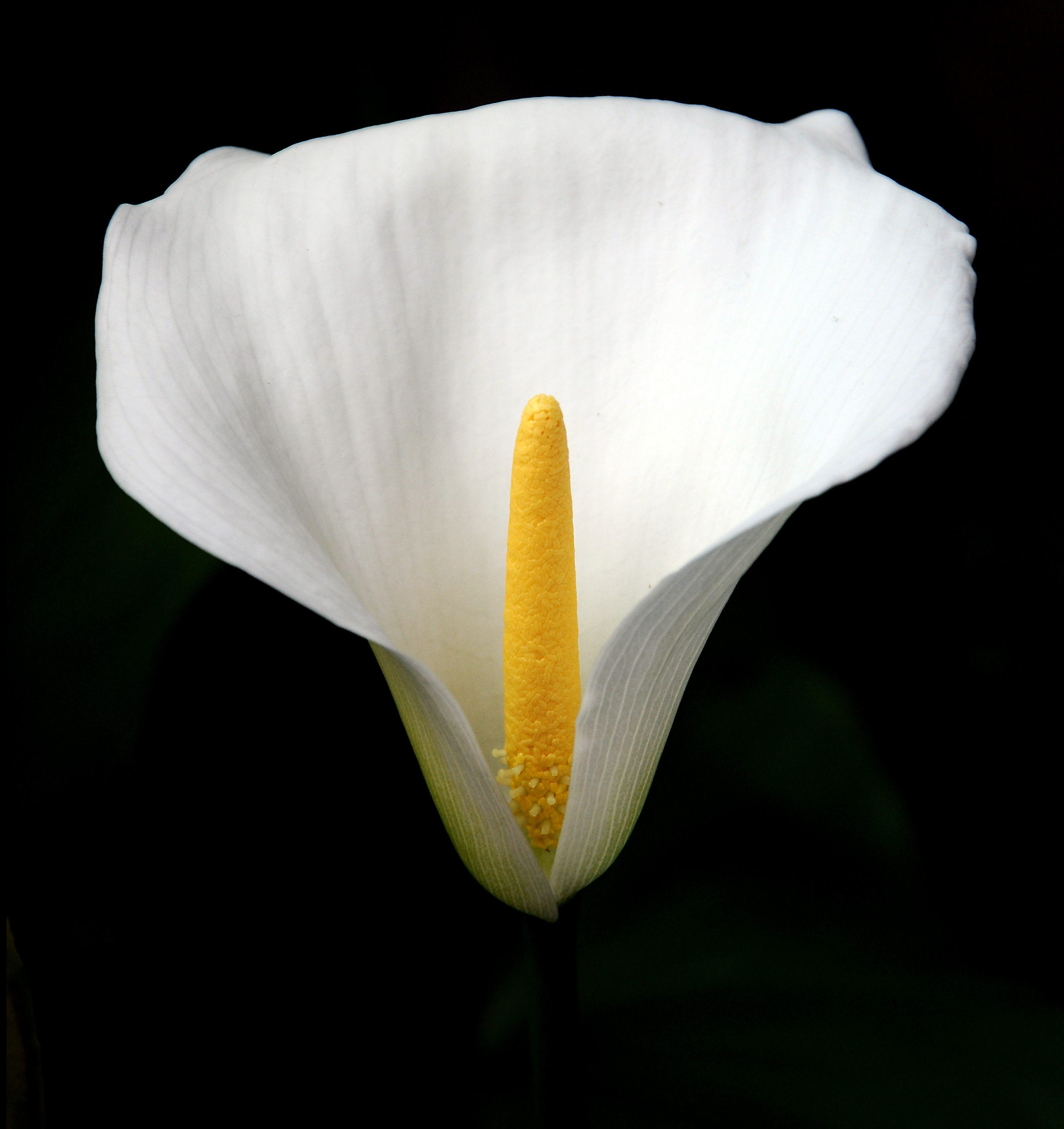 Zantedeschia aethiopica